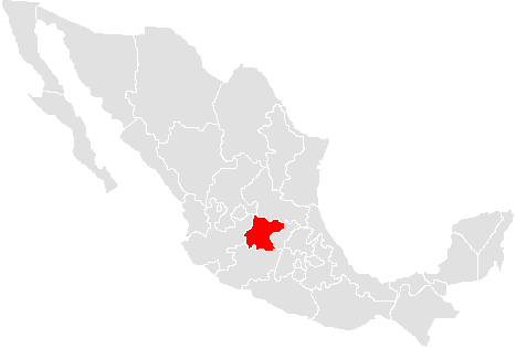 A map of the Mexican state of Guanajuato made by me